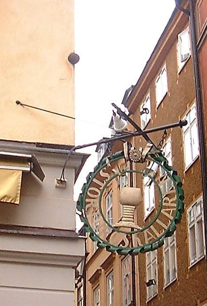 Sign and canon ball at Stortorget, Gamla stan, Stockholm. Cropped and rotated.